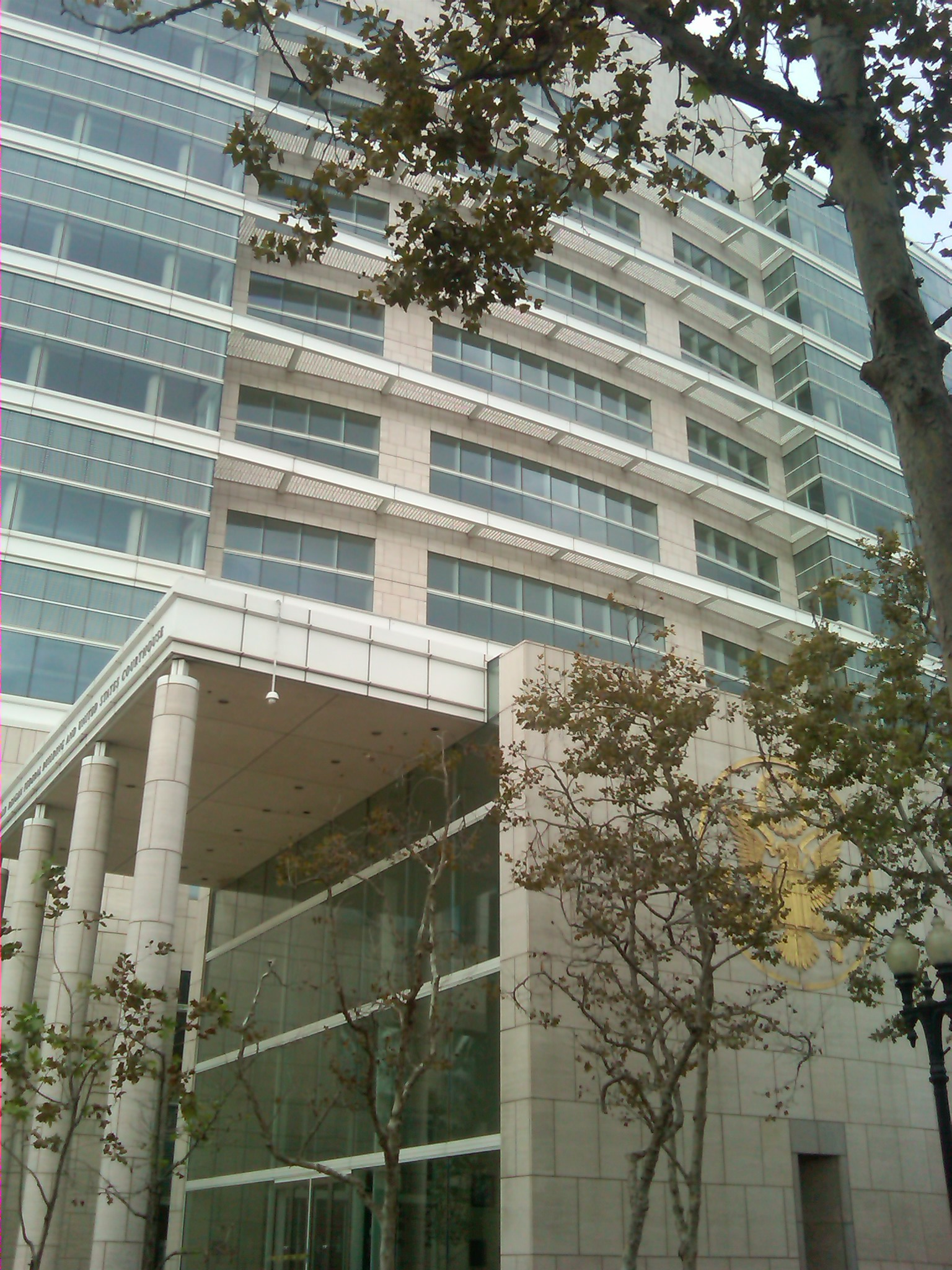 Ronald Reagan Federal Building